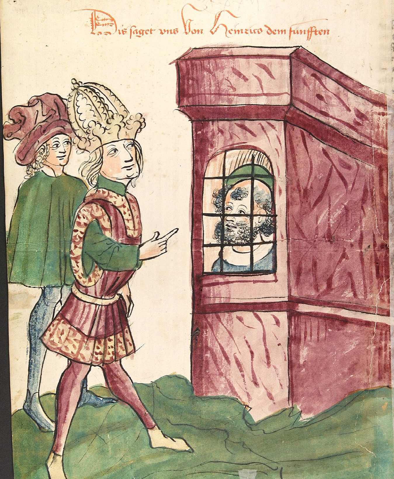 Emperor Henry V visits his father in prison. Unknown artist, workshop of Diebold Lauber, ca. 1450. Full-page, unframed, pen and ink drawing, with watercolor and opaque color. Henry V, wearing a crown and pointing with the index finger of his right hand, stands with a companion beside an oblong tower in which Henry IV is confined behind a barred window. The gray-bearded, nearly bald, deposed emperor looks up and through the window at his visitors.